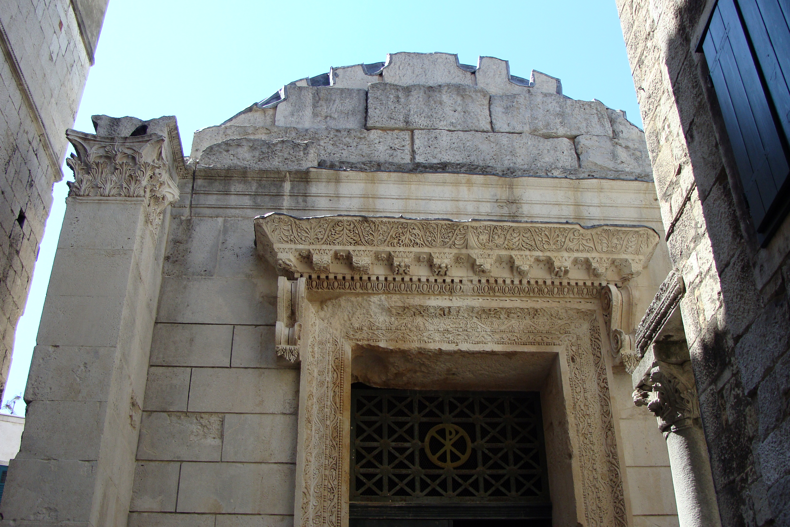 Temle of Jupiter - Split 2010.